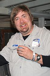 Producer Don Murphy